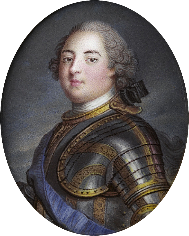 Portrait of Louis Philippe I, Duke of Orléans (1725-1785)